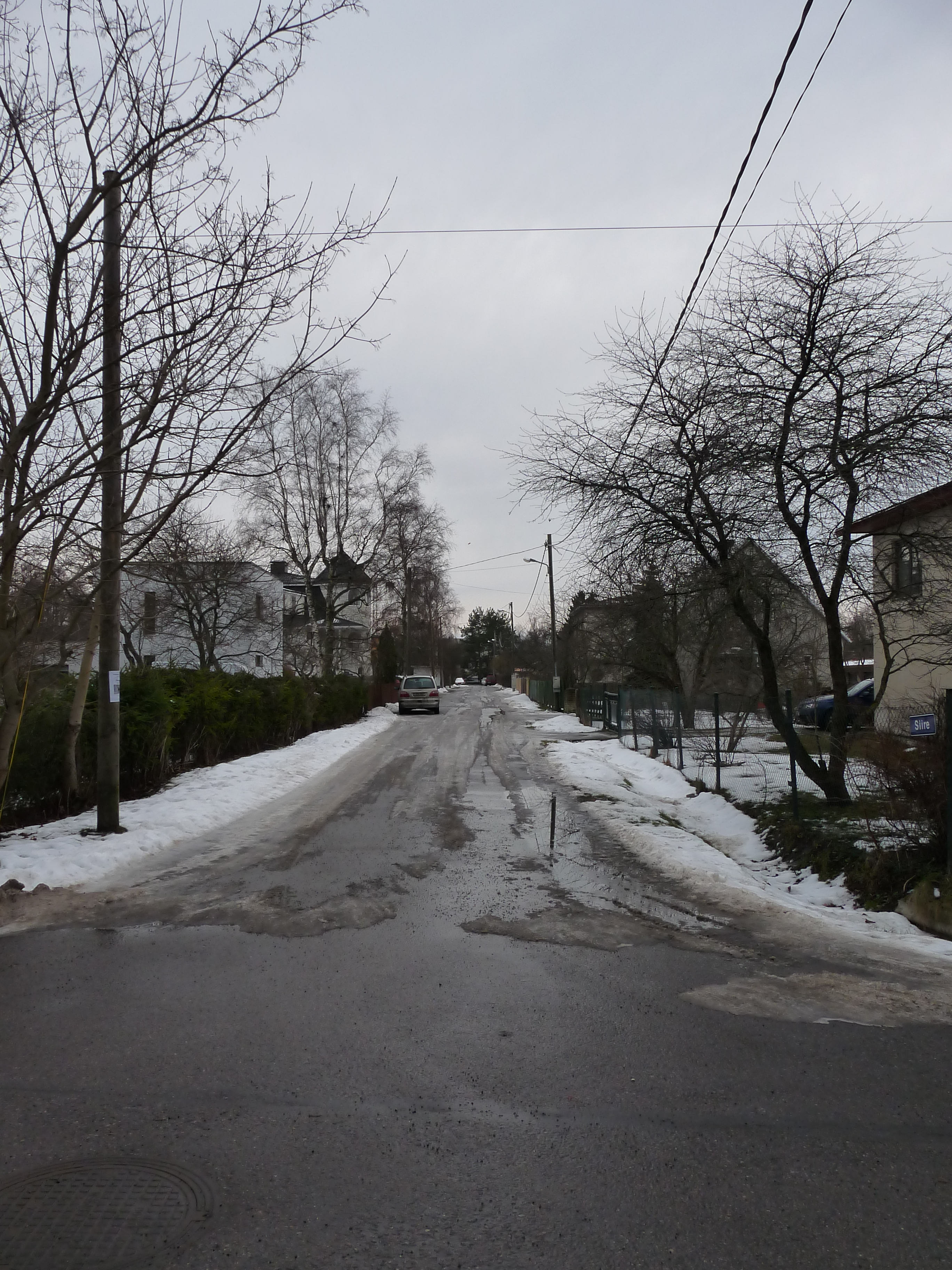 Siire street in Tallinn, Estonia